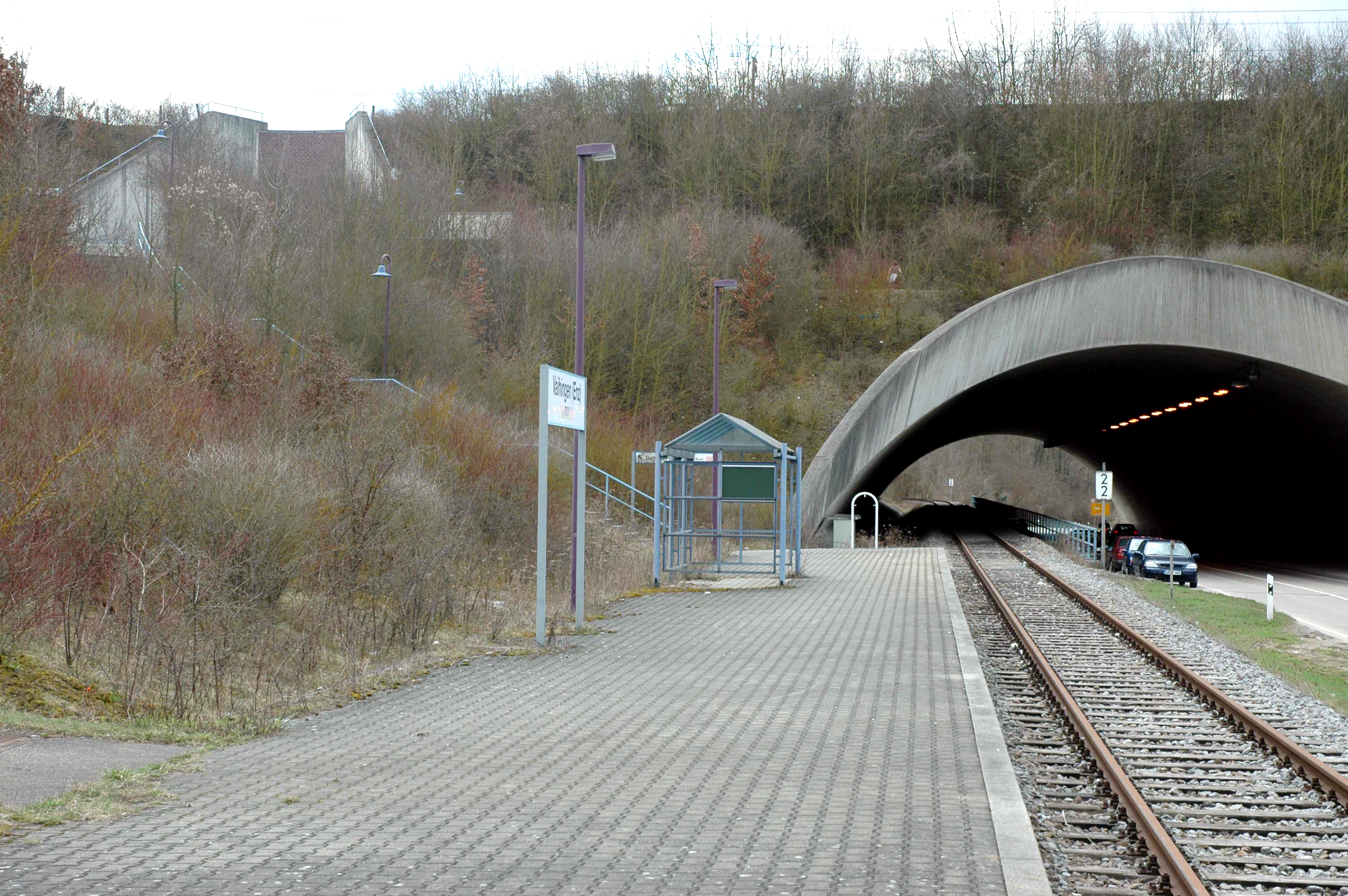 platform of Vaihingen (Enz) WEG. Above the tunnel the new DB station at the high speed tracks Mannheim-Stuttgart are located.